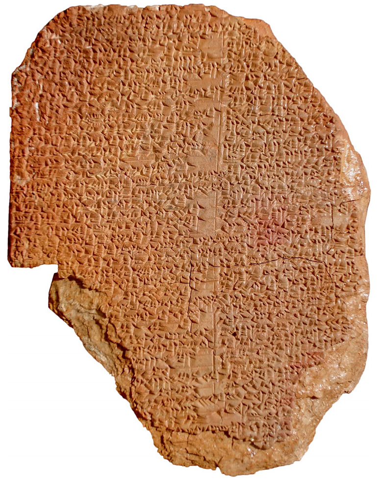 The “Gilgamesh Dream Tablet”, a 3600-year-old clay artifact originated in the area that is today Iraq, and was imported illegally to the United States in the 2000s.